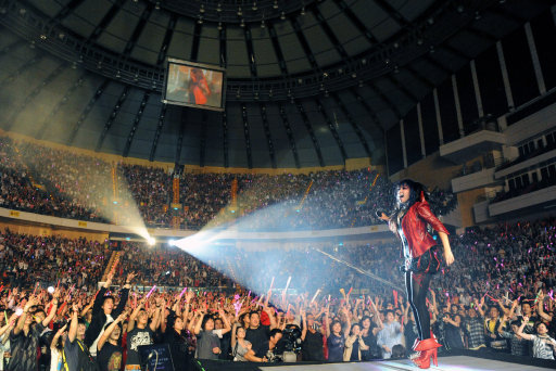 AMEI 2010 WORLD TOUR - Taipei Arena